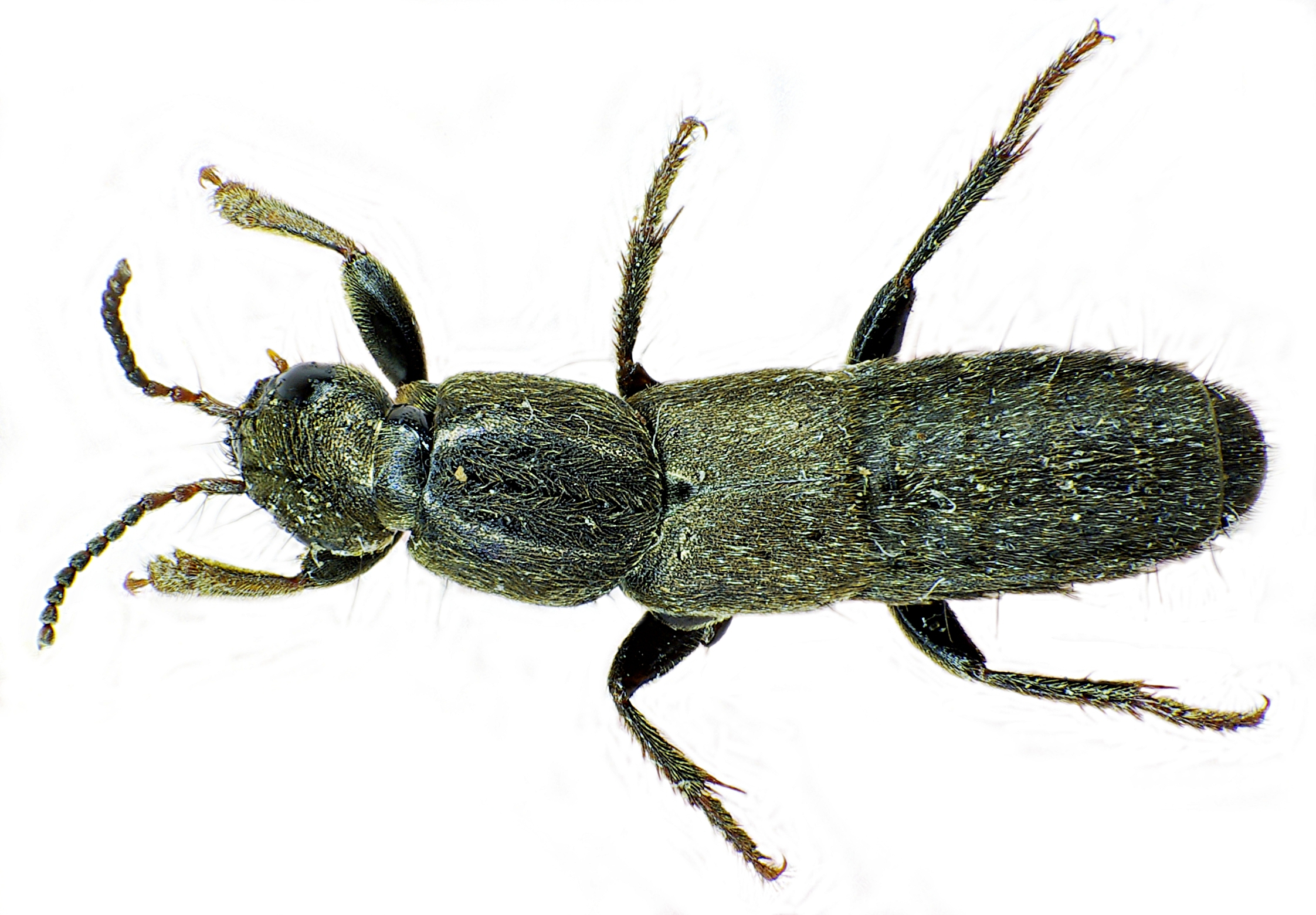 Ocypus aeneocephalus from Southern Germany at 2012-03-01